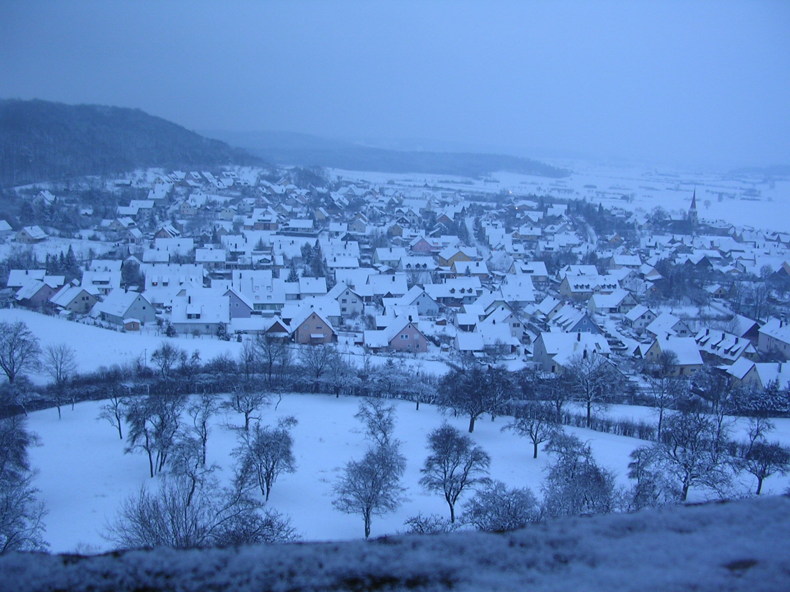 Colmberg, Germany, on a december evening taken from Colmberg castle photographer = uploader